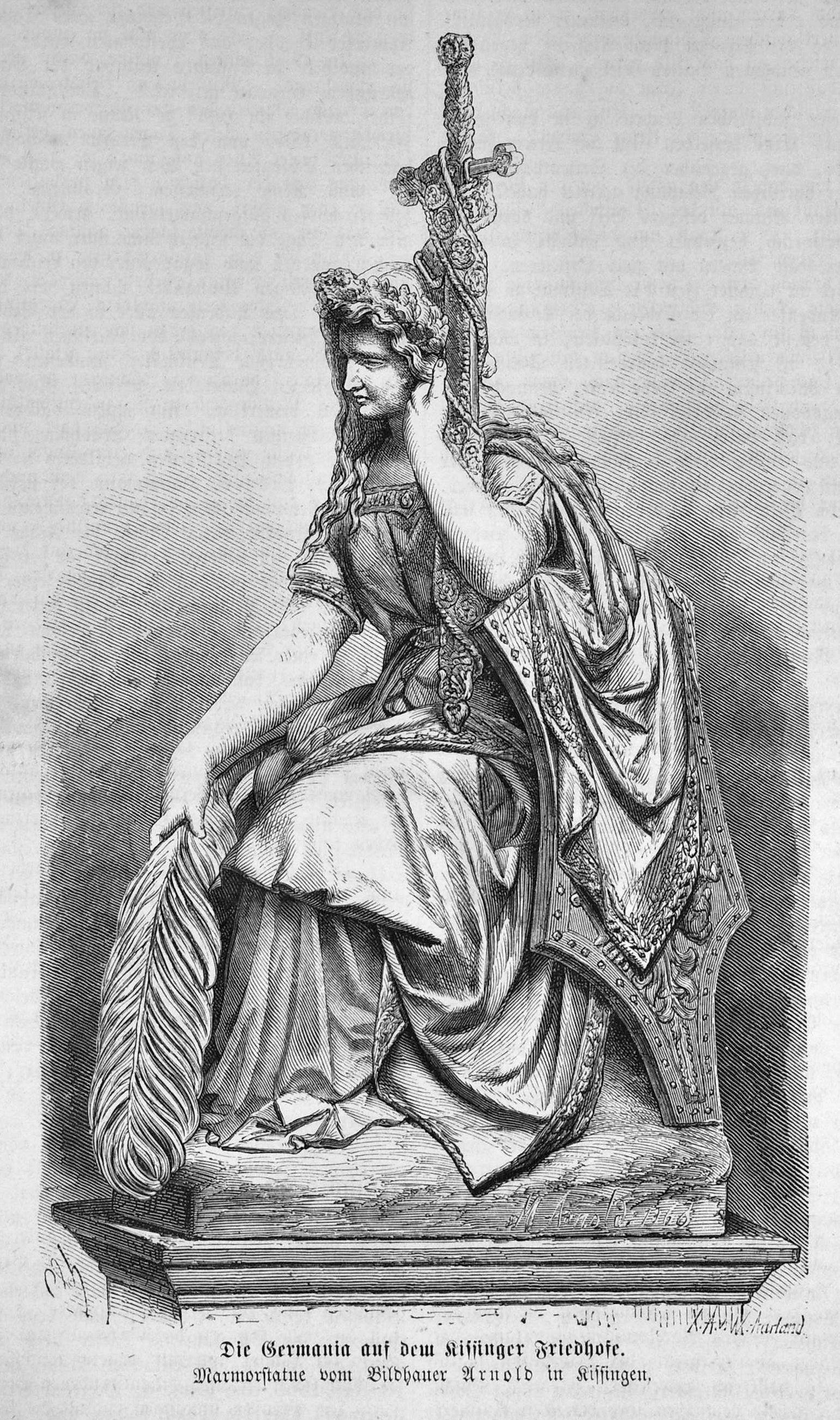 caption: "Die Germania auf dem Kissinger Friedhofe. Marmorstatue vom Bildhauer Arnold in Kissingen."